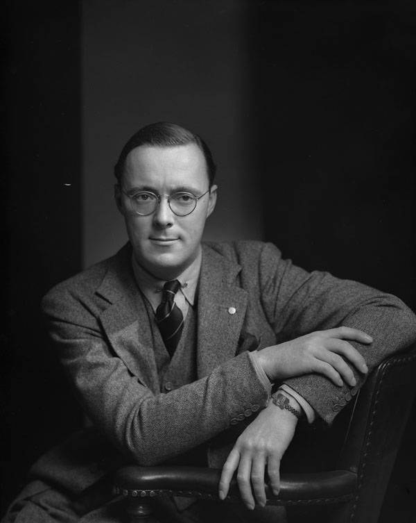 Prince Bernhard of the Netherlands, in Ottawa